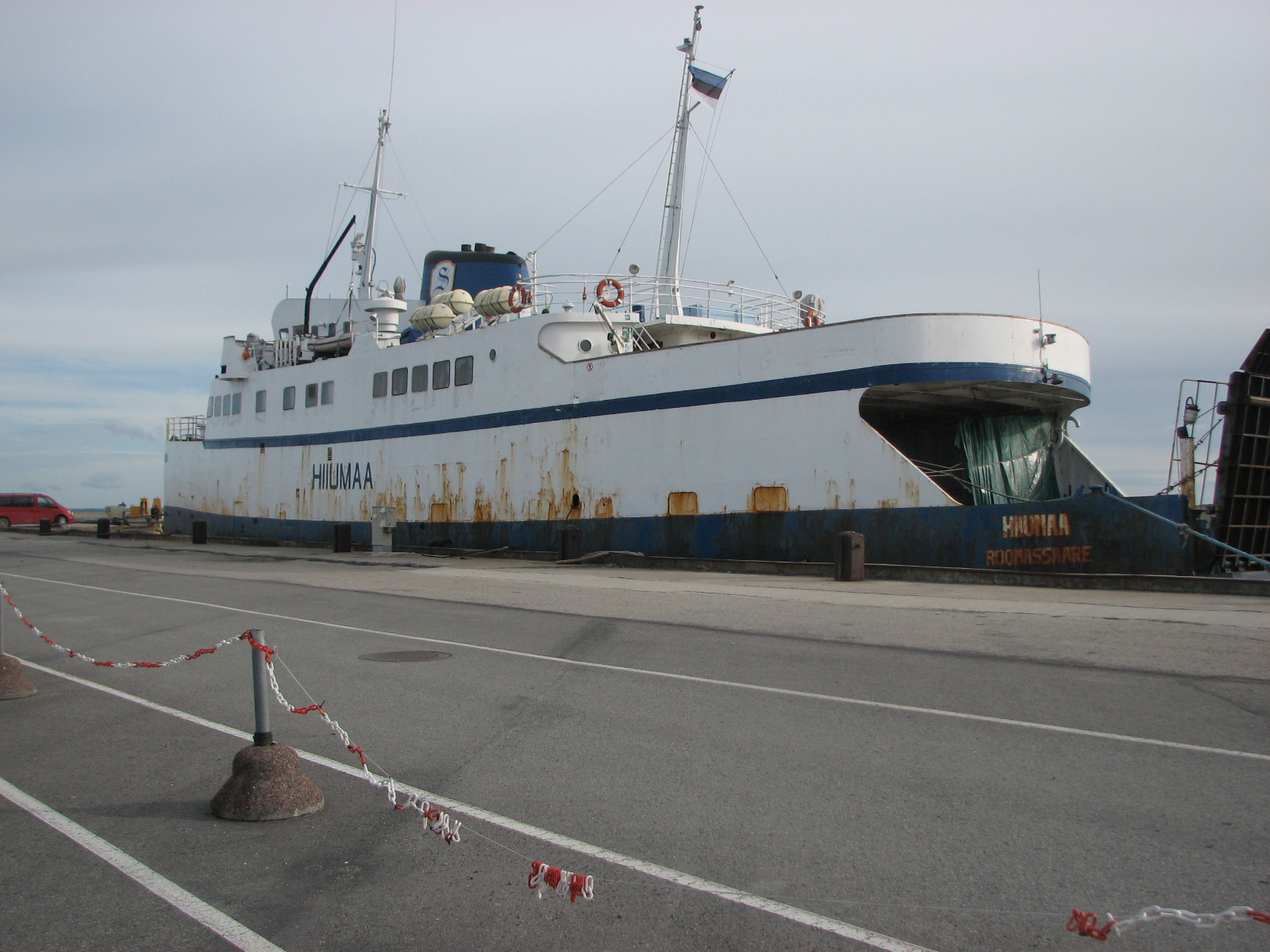 Ferry Hiiumaa was built 1966 in Norway and sold as scrap iron in August 2008 IMO: 6609286 Callsign: ESHU GRT: 1549 Year of build : 1966